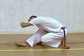 Negativa, side view